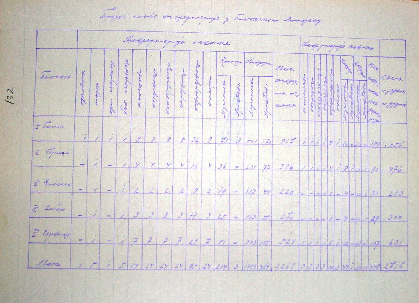 Table of the quantity and composition of the gendarmerie in the Bitola Vilayet. (Bitola, July 22, 1904) This media file is produced by Wikipedian in Residence in Category:Wikipedian in Residence at DARM in 2016.